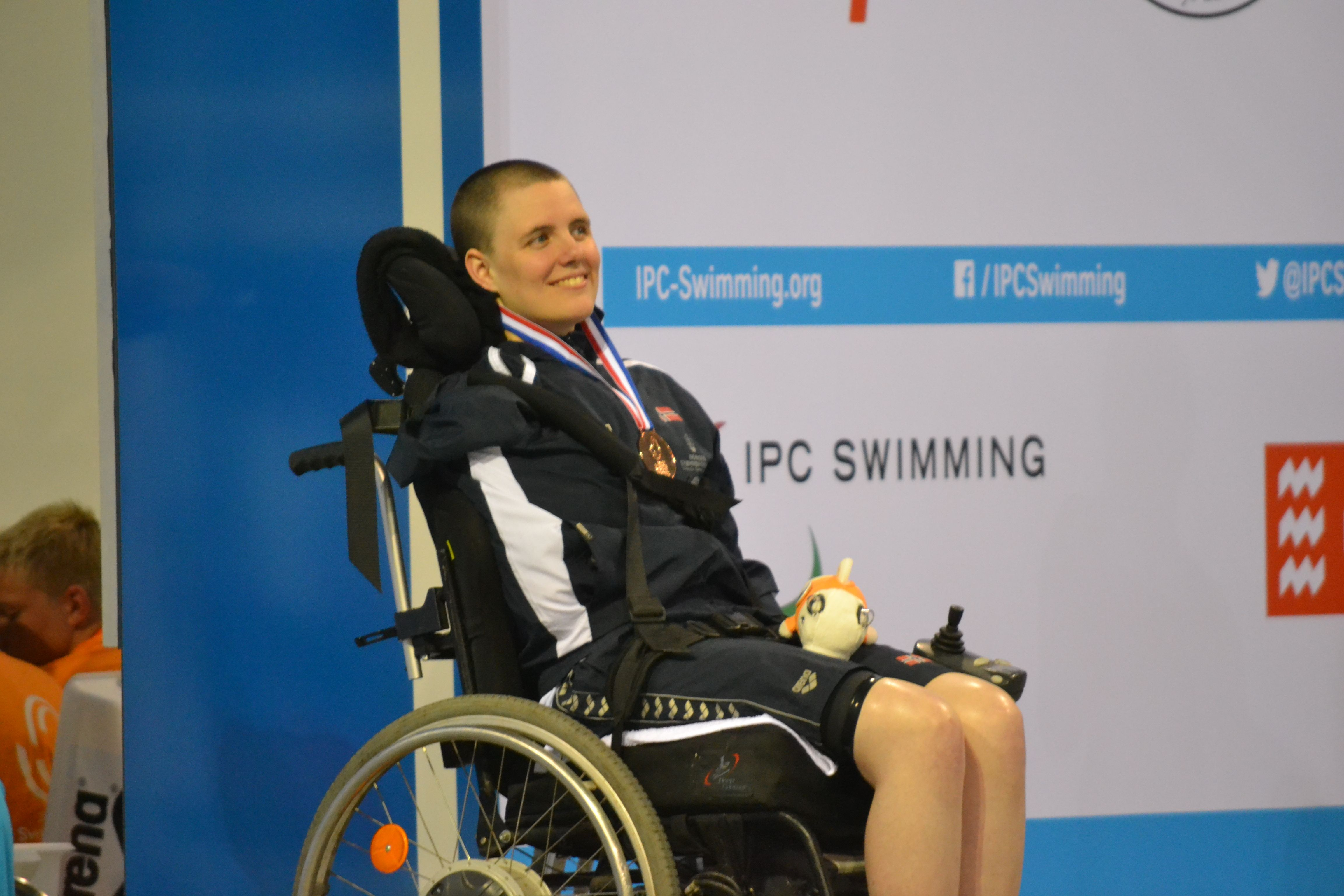 Please refer to: "Photo NSF". From EM in Eindhoven 2014 IPC Swimming European Championships.